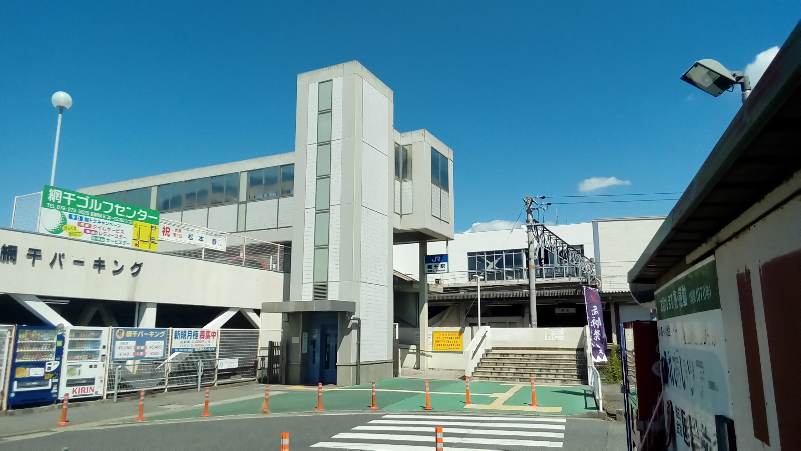 West Japan Railway San'yō Main Line Aboshi Station south entrance